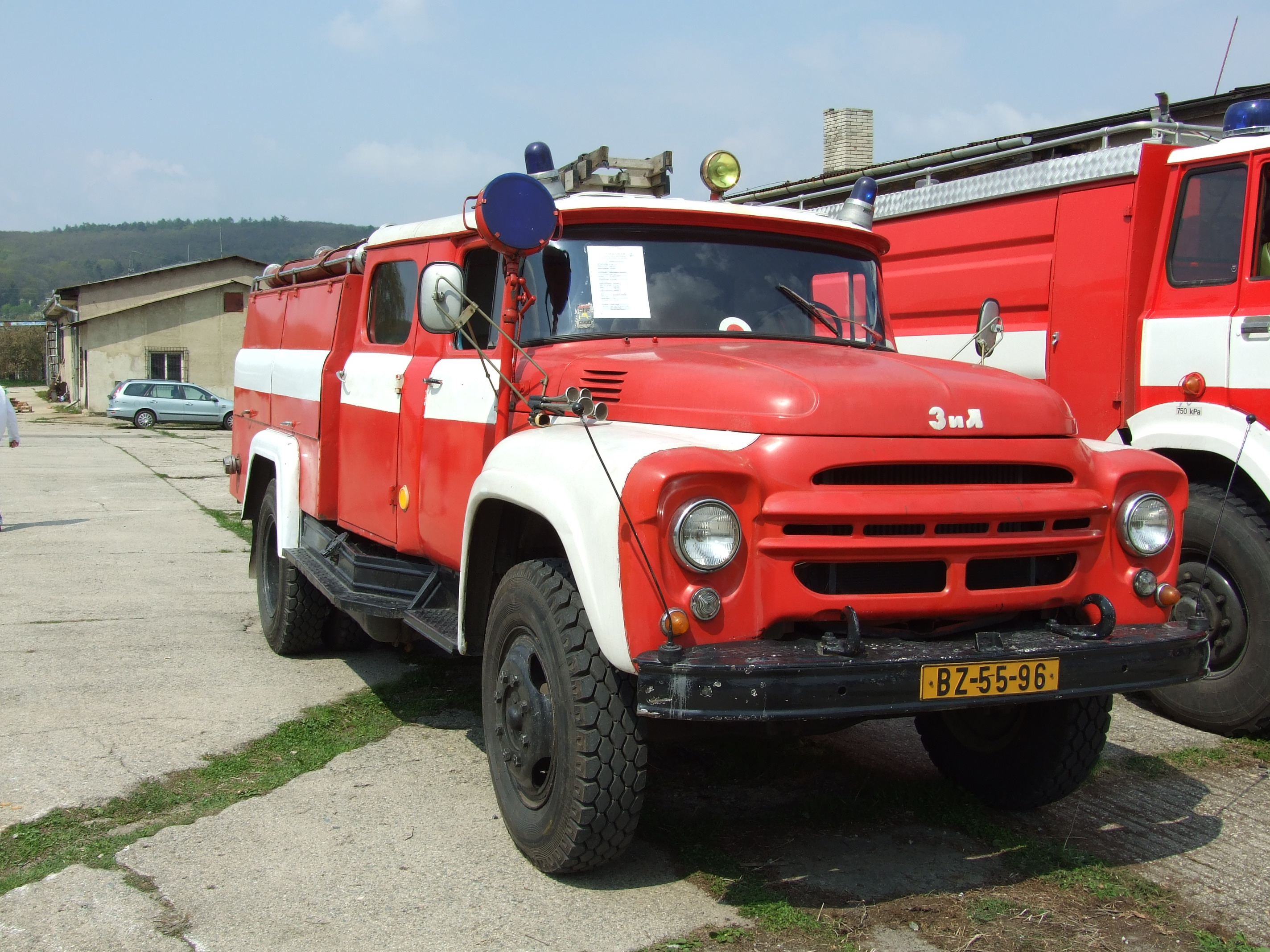 Exhibition of firefighters trucks and other equipment in Brno-Řečkovice, CZ. ZiL-130 truck chassis.help